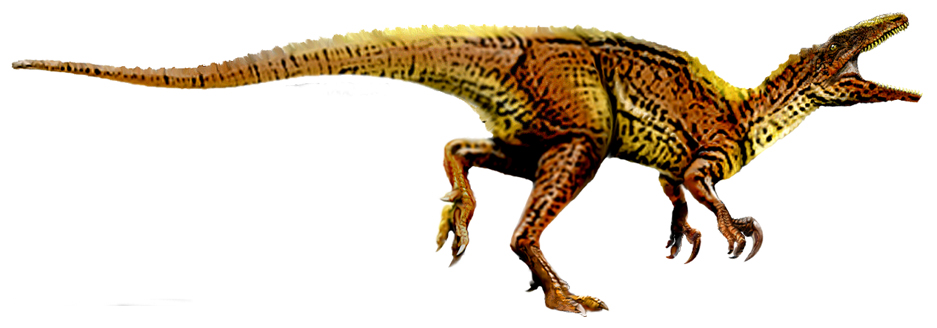 Artistic representations of Australovenator wintonensis